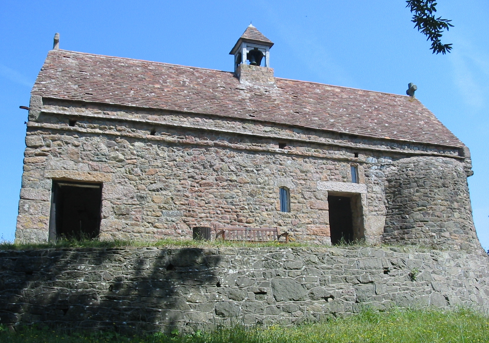 La Hougue Bie